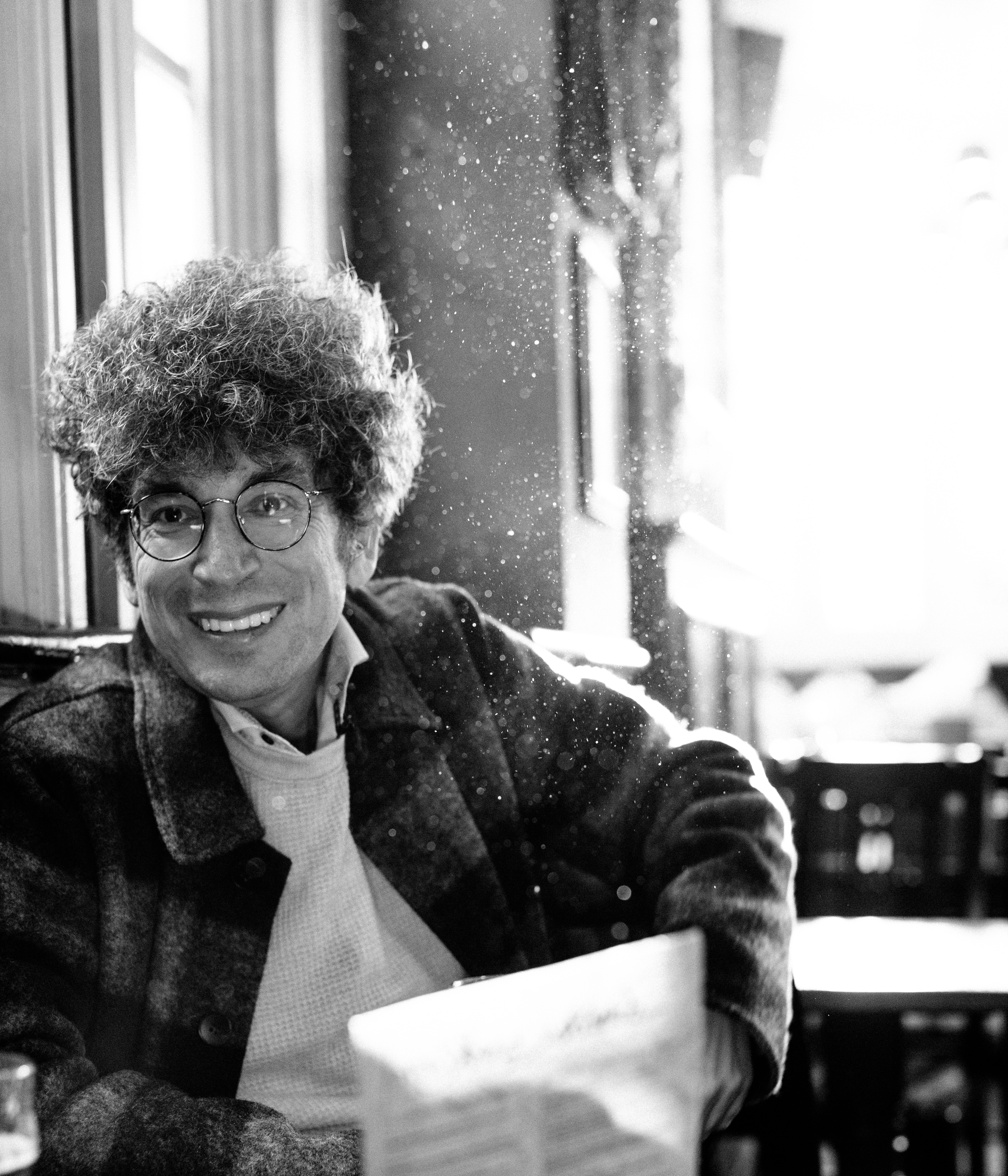 James in London November, 2018